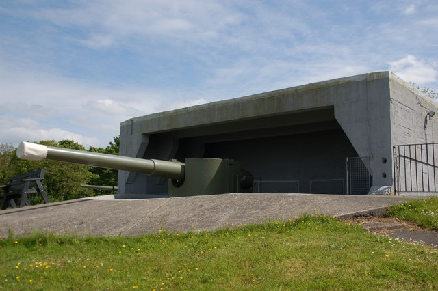 Grey Point Fort, Helen's Bay (3) See 441338. This is no. 2 emplacement seen from the seaward side. No. 1 is just visible, on the left, below the gun barrel.